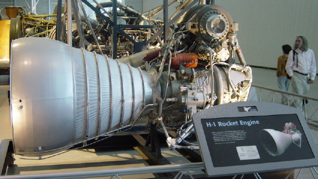 H1 Rocket engine in National Air & Space Museum Annex